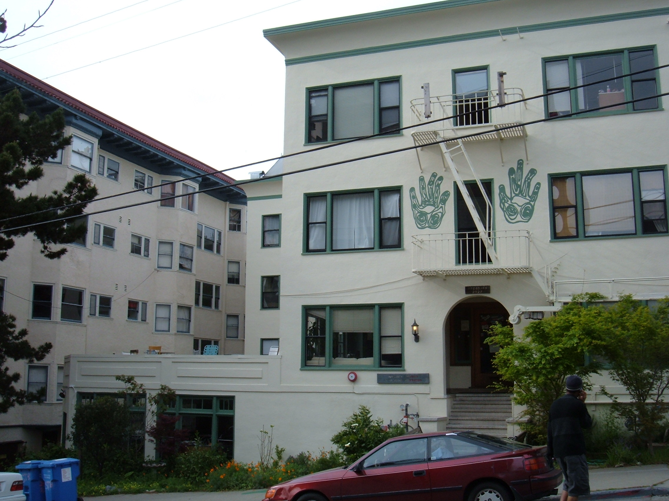 Stebbins Hall, one of the houses in the Berkeley Student Cooperative, in Berkeley, California.